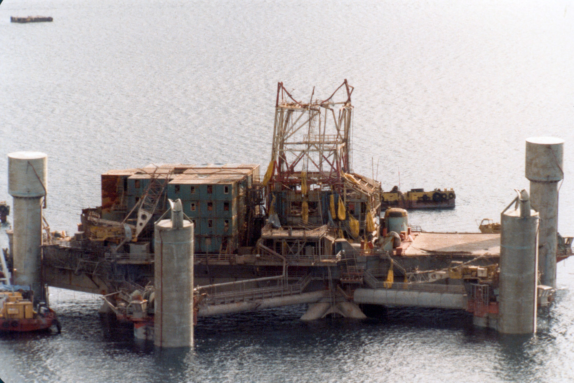 Alexander L. Kielland with pontons after recovery